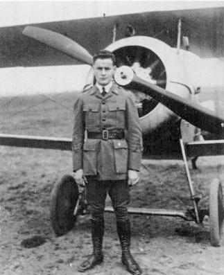 Corporal William Wellman as a first American fighter pilot in N.87 squadron of the France Air Service at the Western front, 1917.